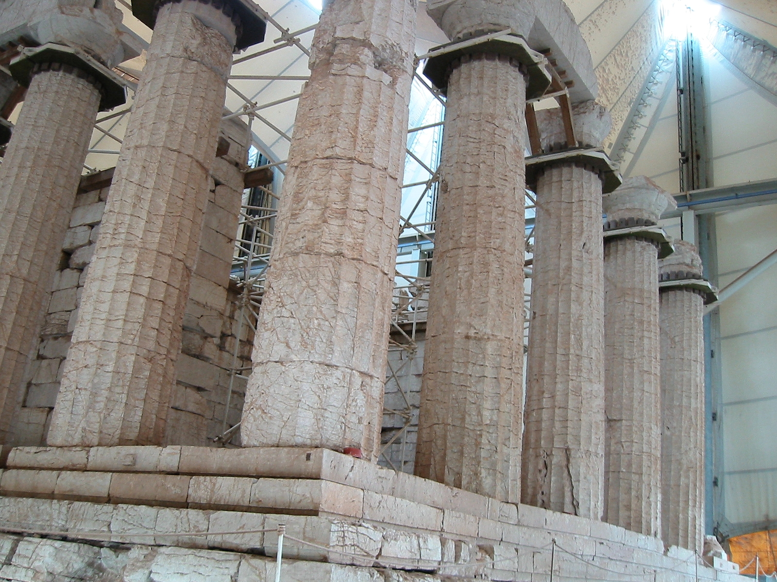 The Bassai Temple Of Apollo in Greece. The building is protected against the weather by an enormous tent because of his dilapidated state. Photo taken in September 2005.